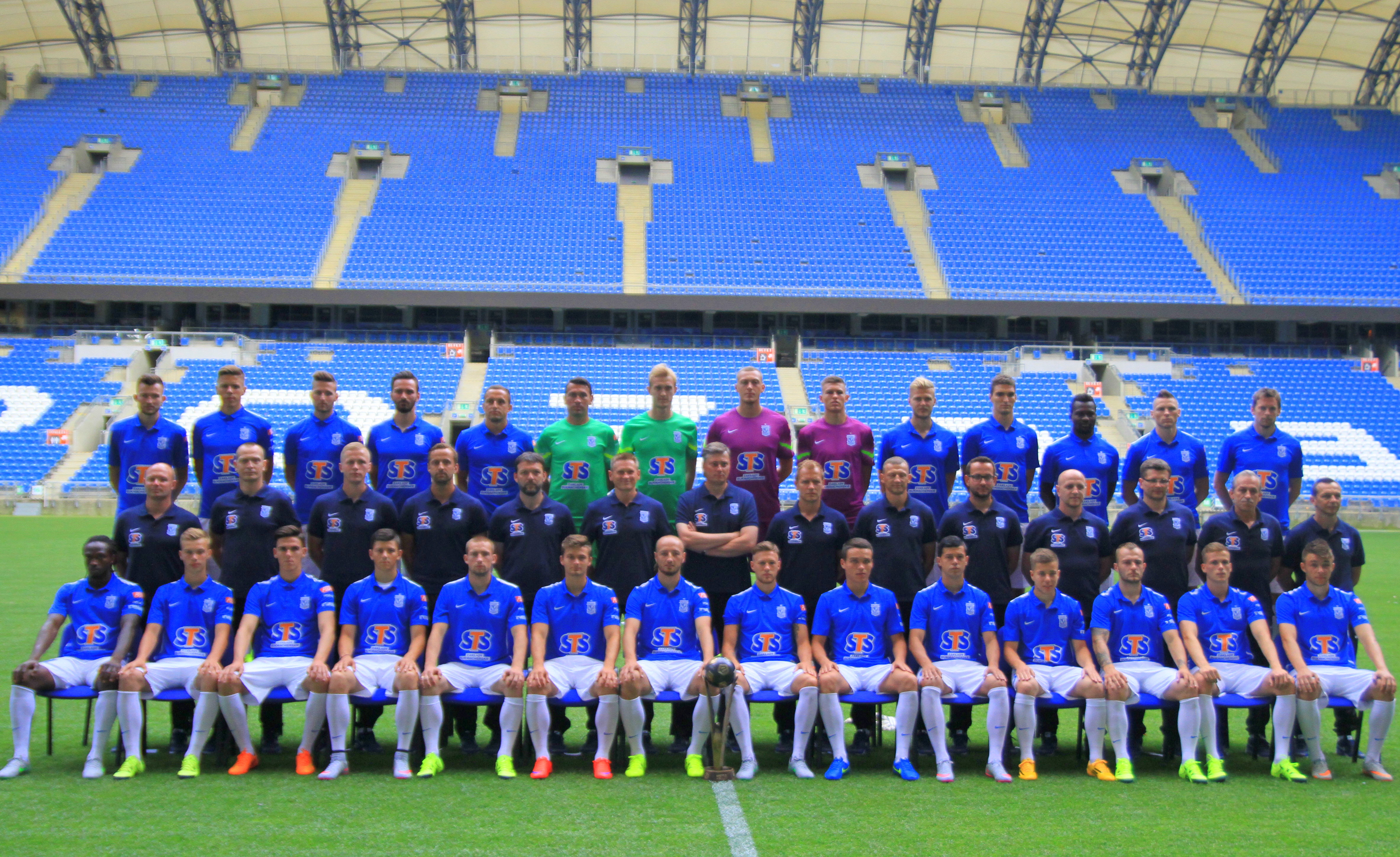 Football players of Lech Poznań, Poznań, Poland.